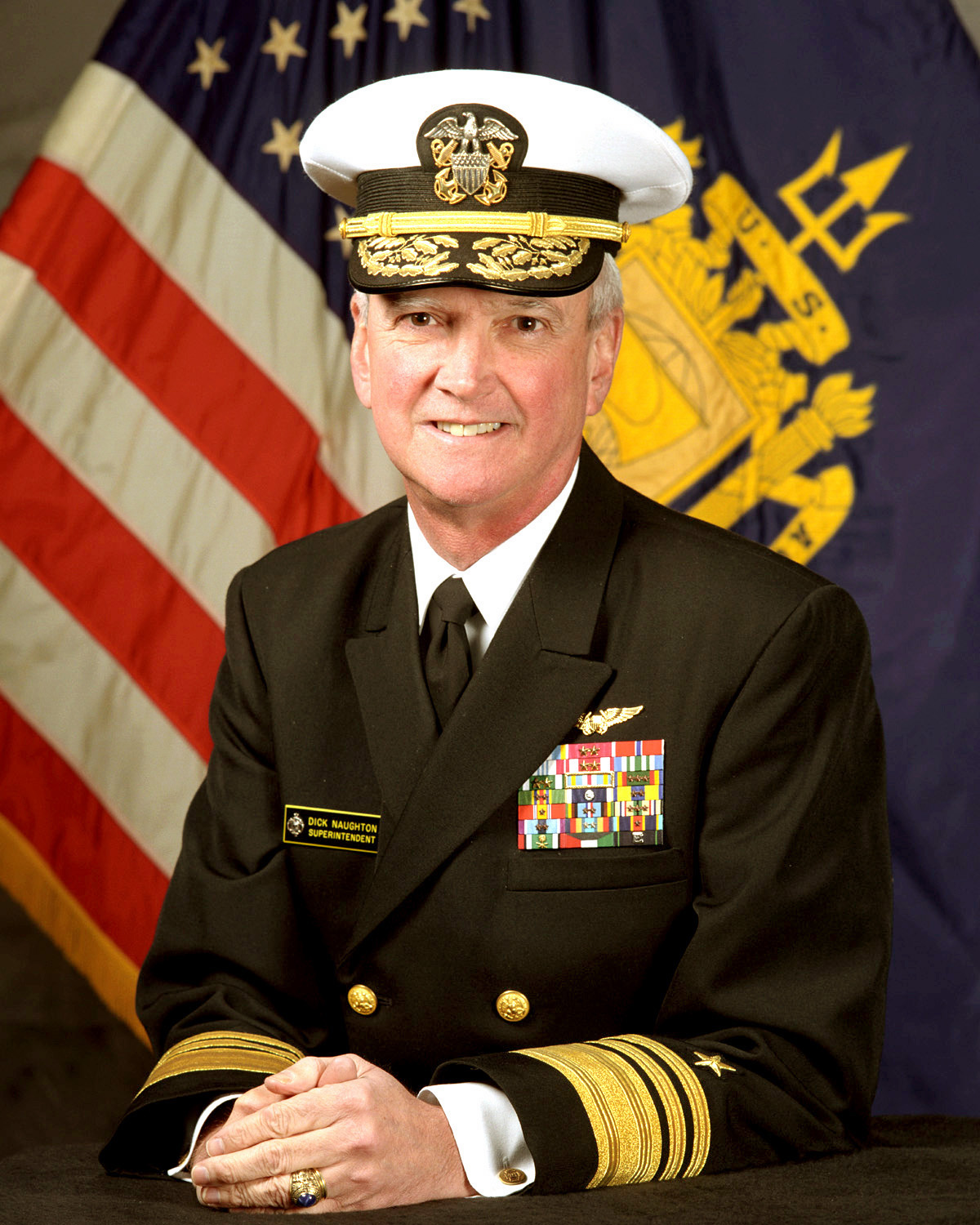 File Photo. U.S. Navy photo of Vice Adm. Richard J. Naughton. U.S. Navy photo. (RELEASED)